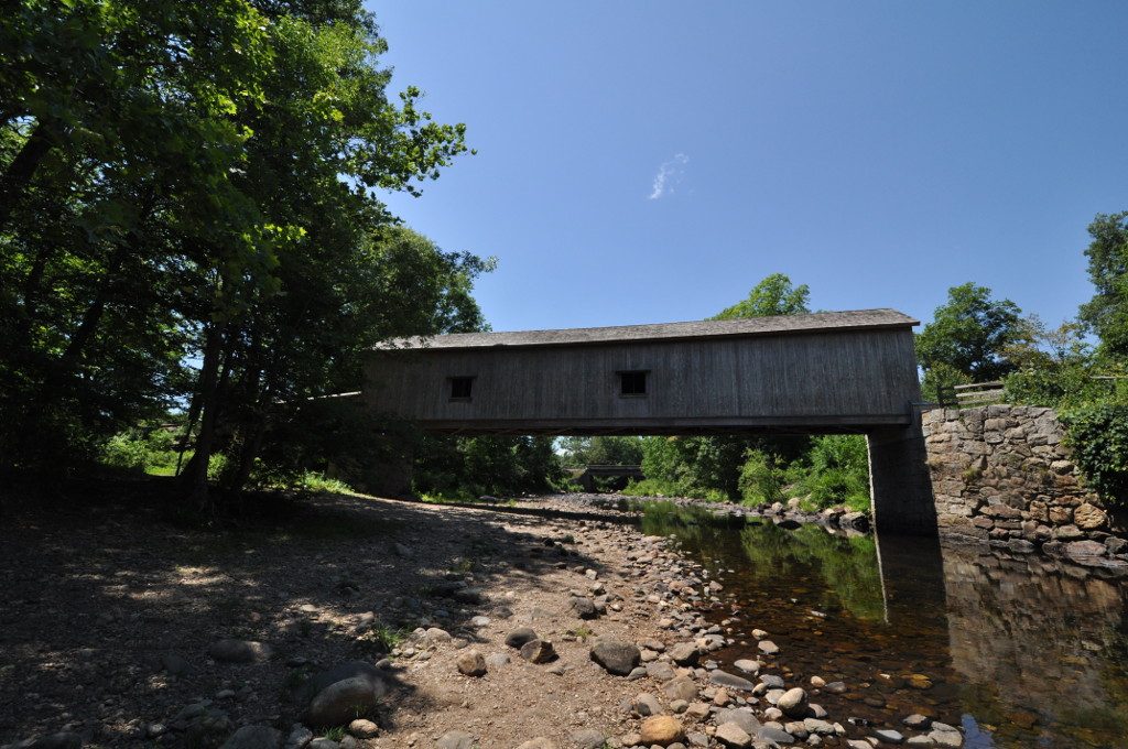 Comstock's Bridge, East Hampton, Connecticut.